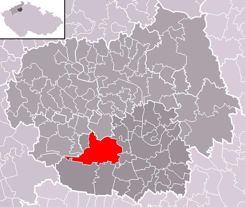 Location of Budyně nad Ohří town within Litoměřice District and administrative area of Roudnice nad Labem as a Municipality with Extended Competence.